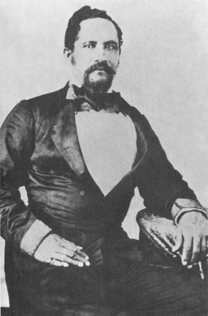 Isaac Young Davis, ca. 1860s. Bishop Museum CP 39771.